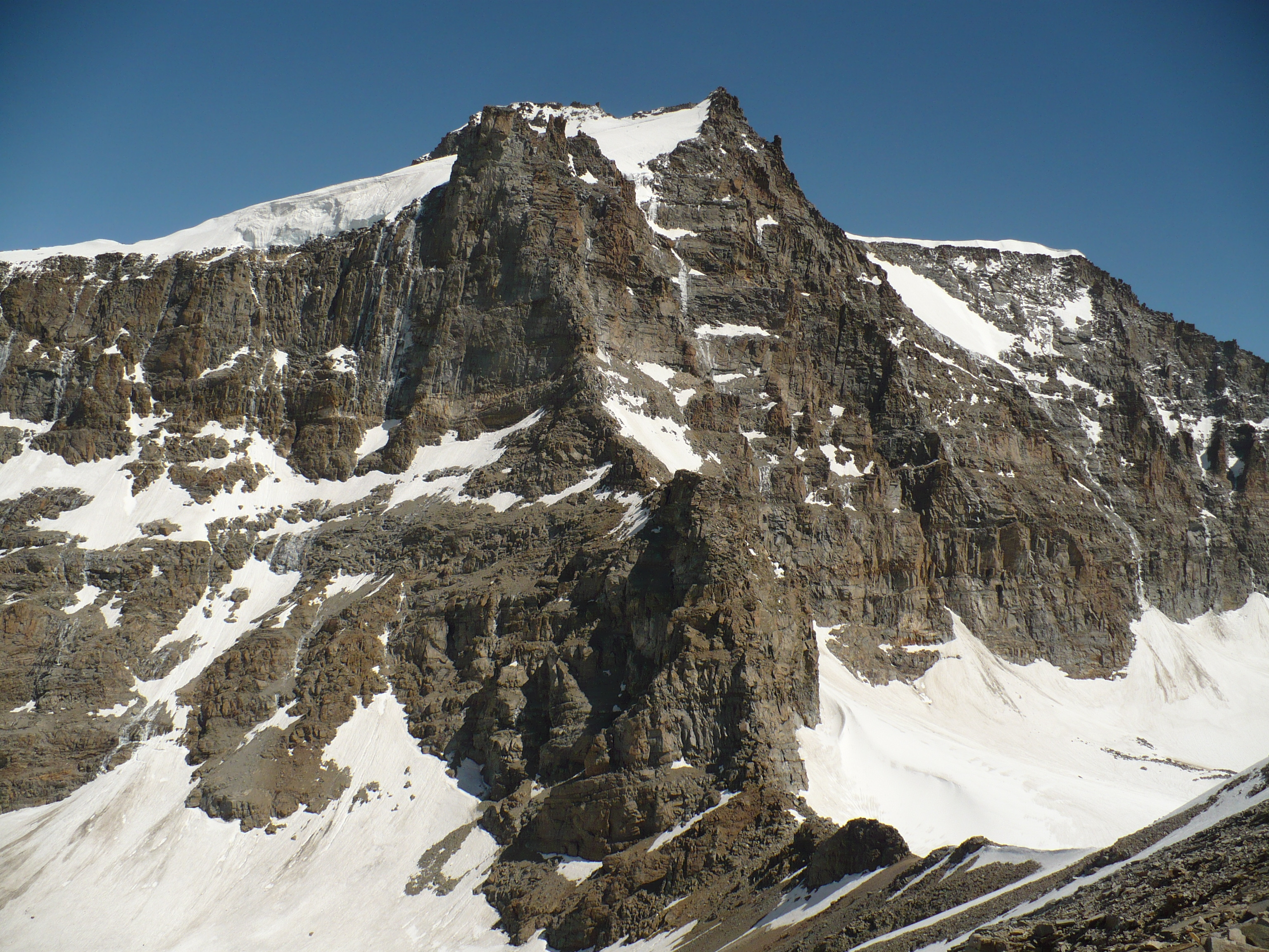 Gran Paradiso summit and Cresta Gastaldi; Gran Paradiso massif; Graian Alps; Aosta Valley; Italy